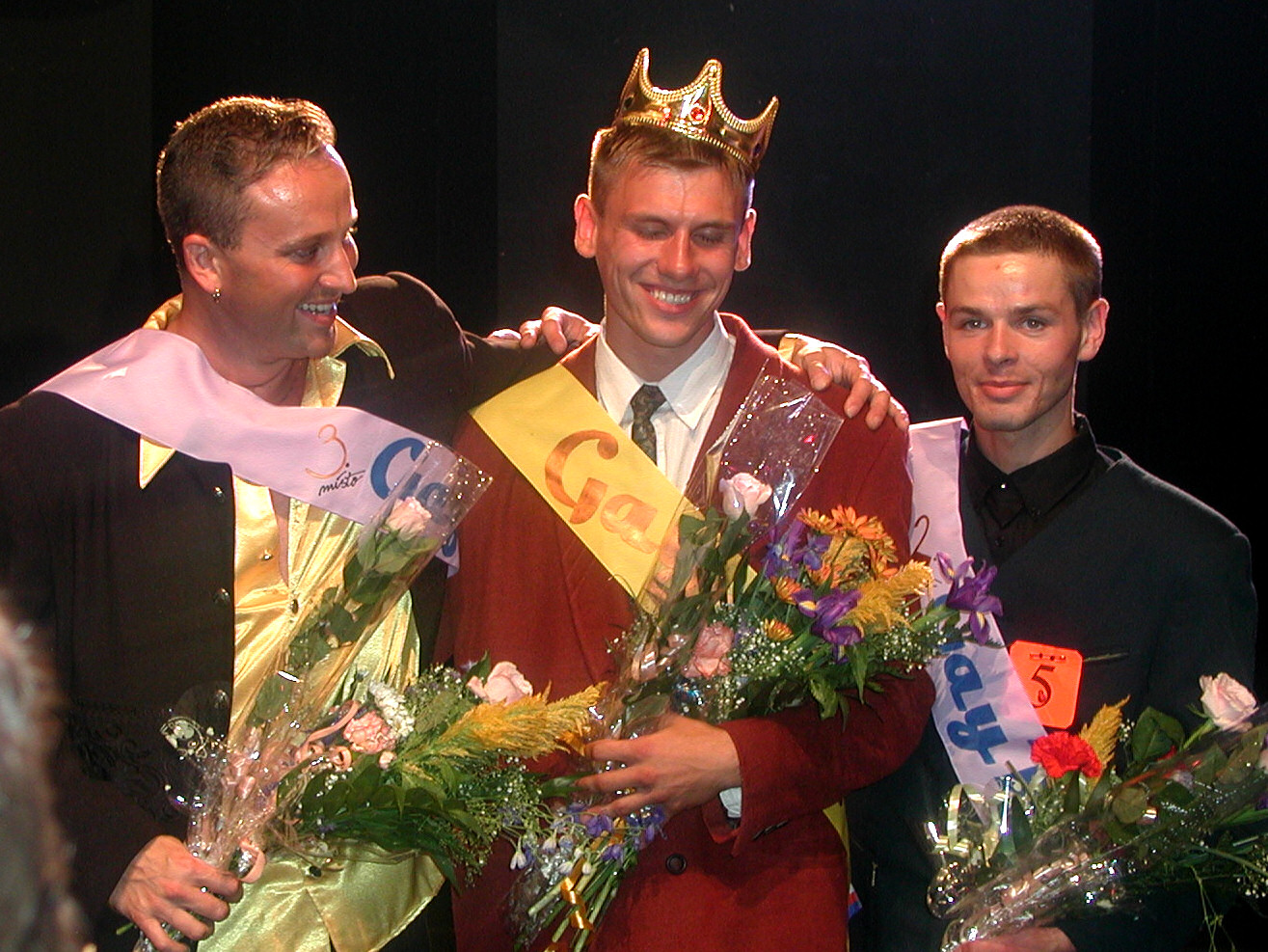 Gay Man of Czech Republic 2000. Winners. Brno: Laser Show Hall, Boby centrum